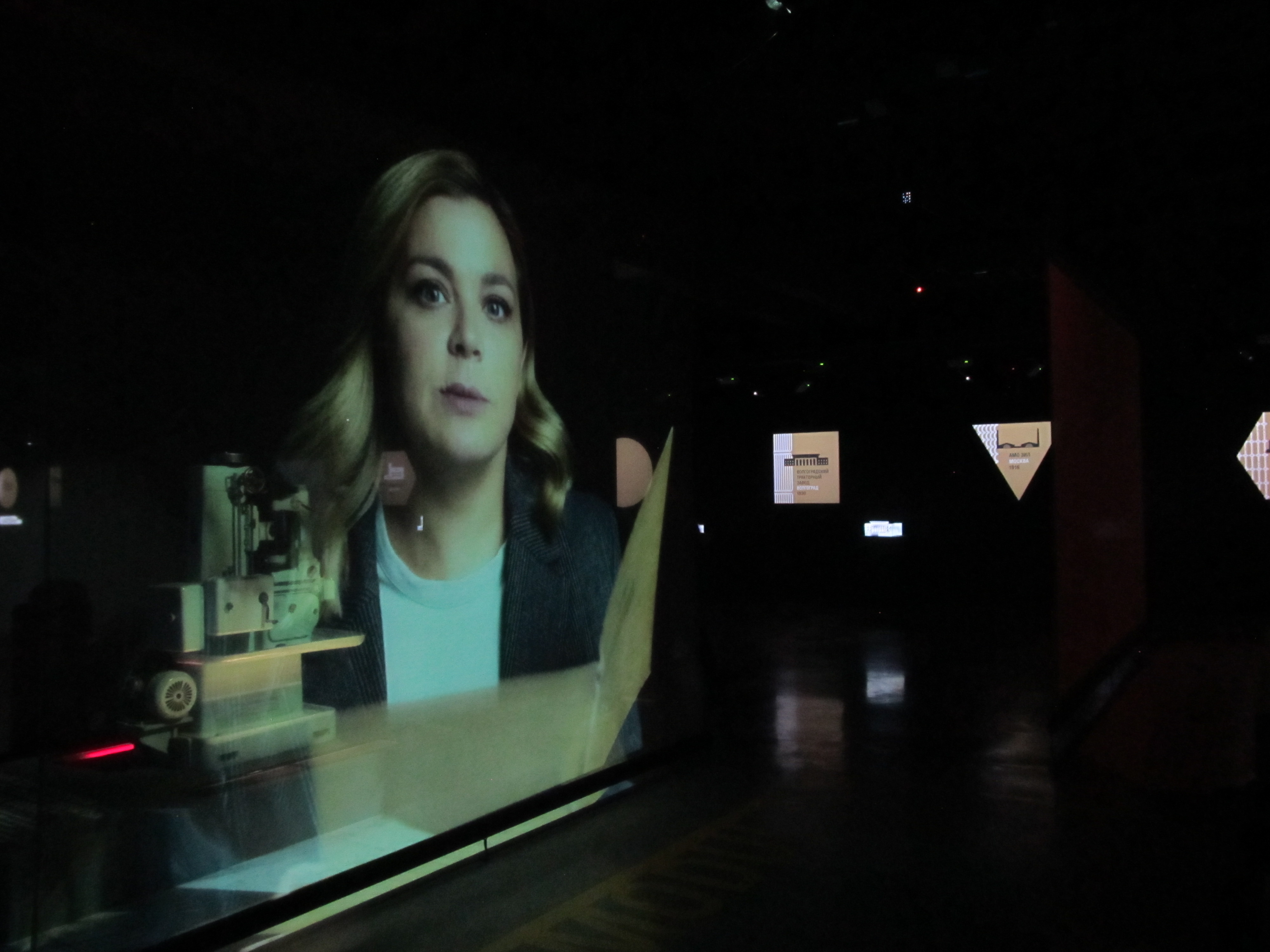 Media presentation of Machine Tool museum by Oktava Cluster. Wikiexpedition to Tula (2019-06-29) in Oktava Creative Industrial Cluster, Machine Tool museum и Oktava plant